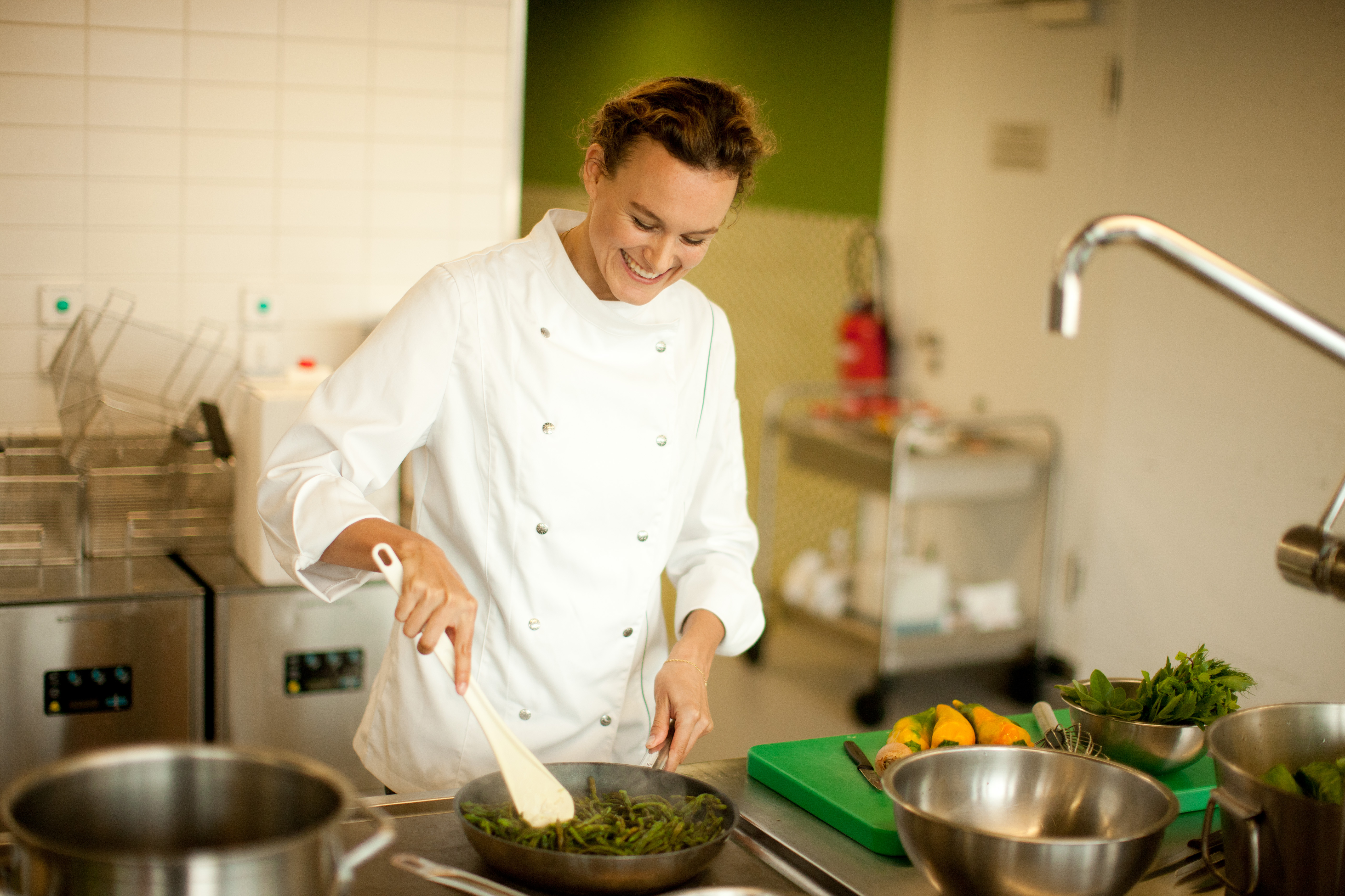 Lauren Wildbolz is the best Chef Too